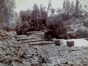 At Banias or Caesaria Philippi, 1891. From original silver print in book titled: "A Month in Palestine and Syria, April 1891," (author unknown). Original 19th century book in the possession of Kimberly Blaker, New Boston Fine and Rare Books.